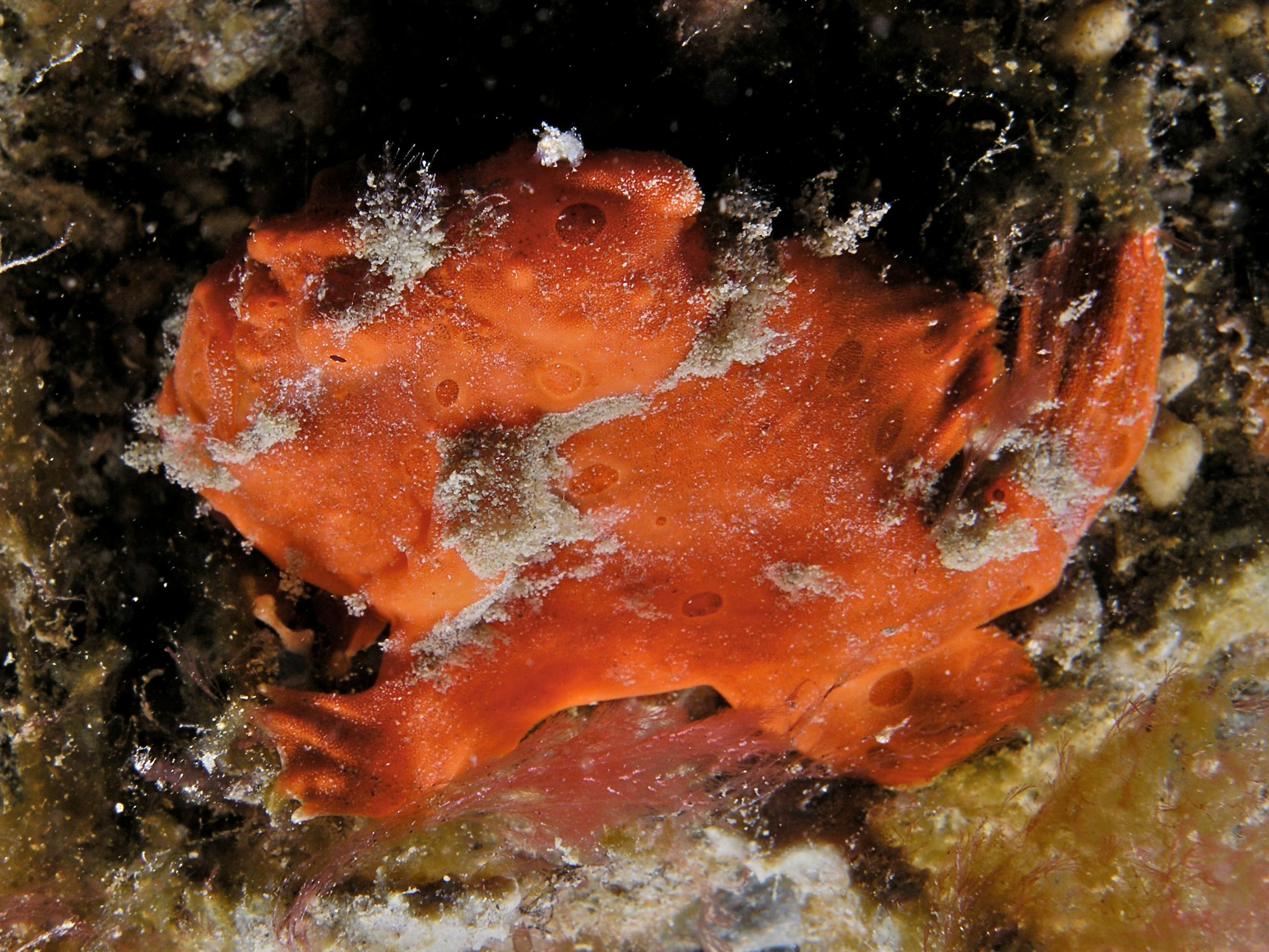 Antennarius pictus (Painted frogfish)